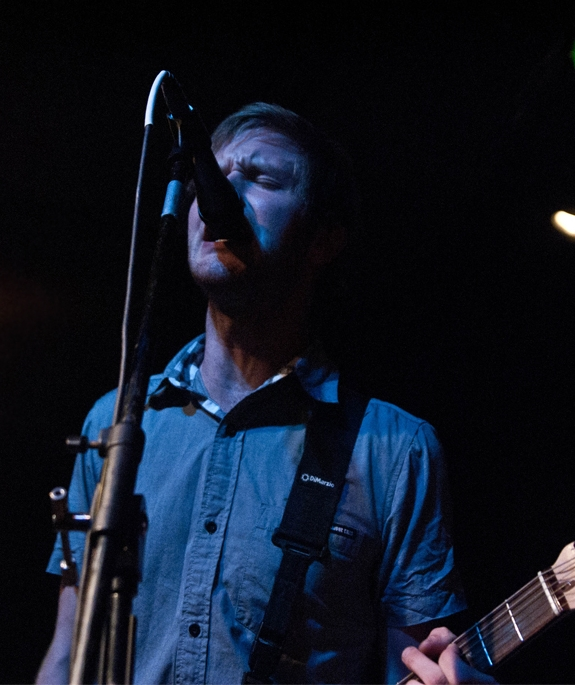 Cody Payne from The Dangerous Summer at School Of Rock, NJ